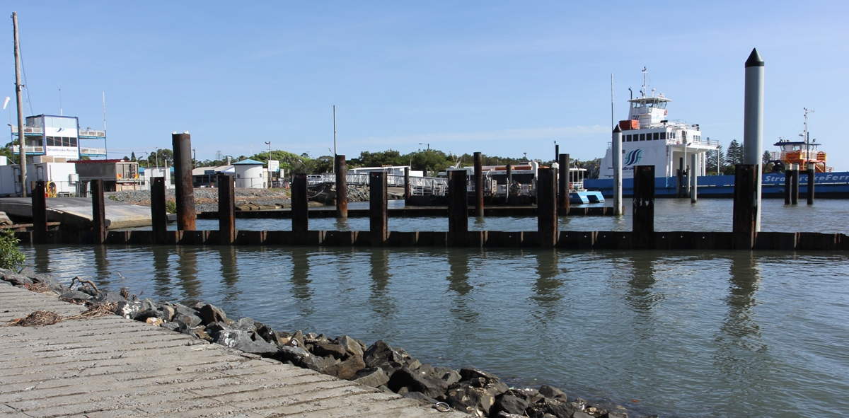 Toondah Harbour, Cleveland, Queensland photographed from public boat ramp